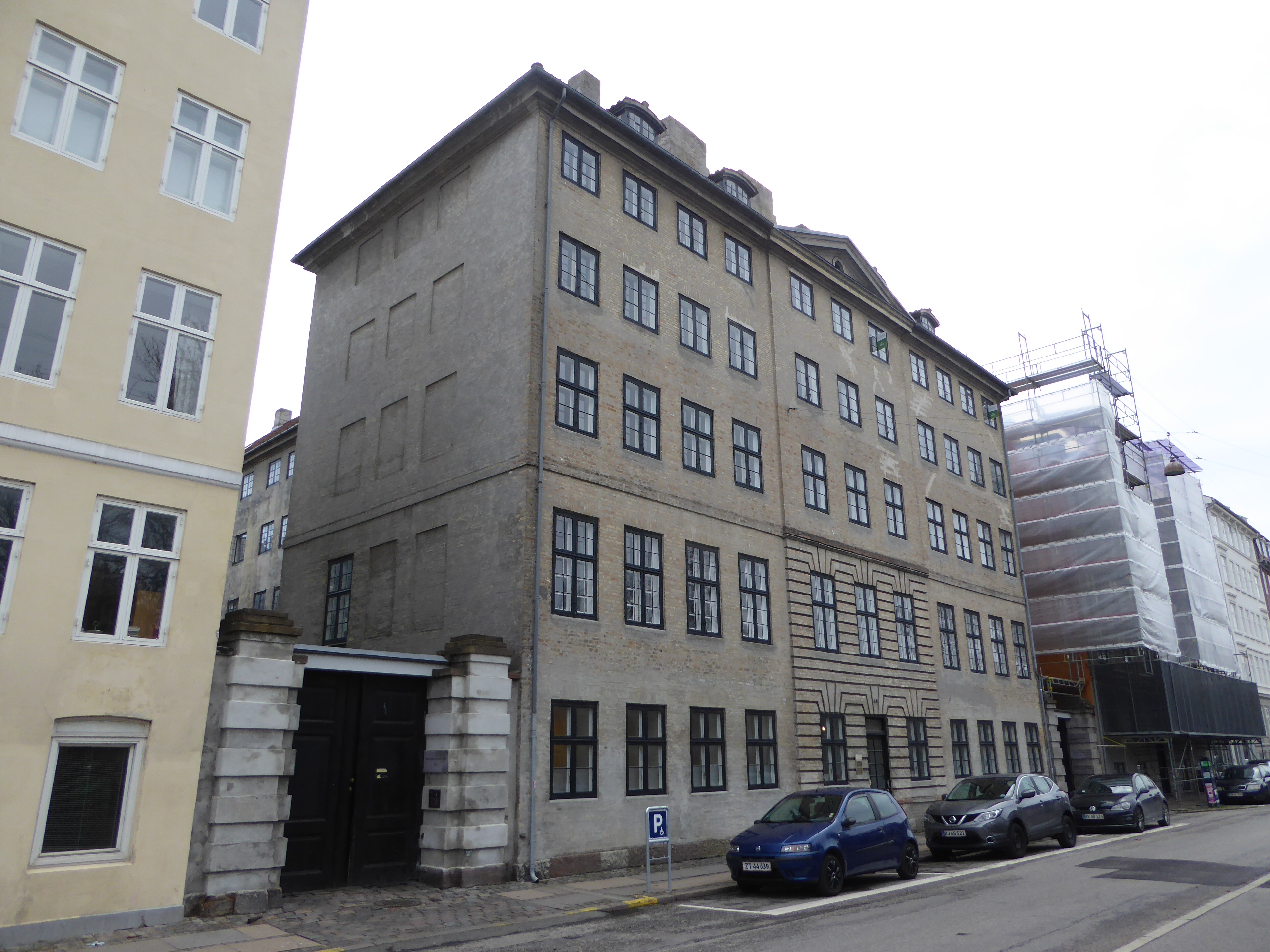 The former barrack Kronprinsessegades Kaserne at Kronprinsessegade in Indre By in Copenhagen.